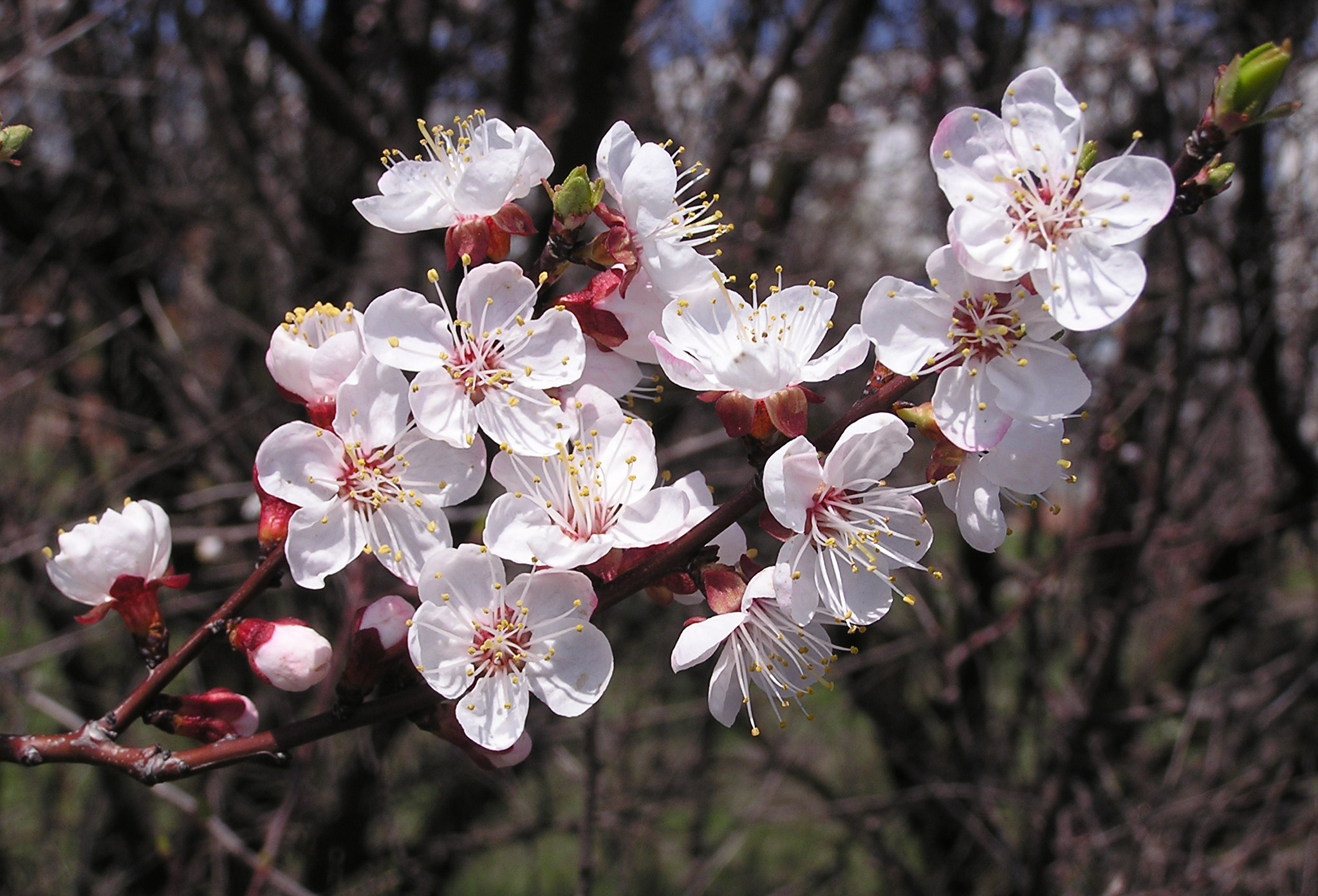 Flowers of Prunus armeniaca